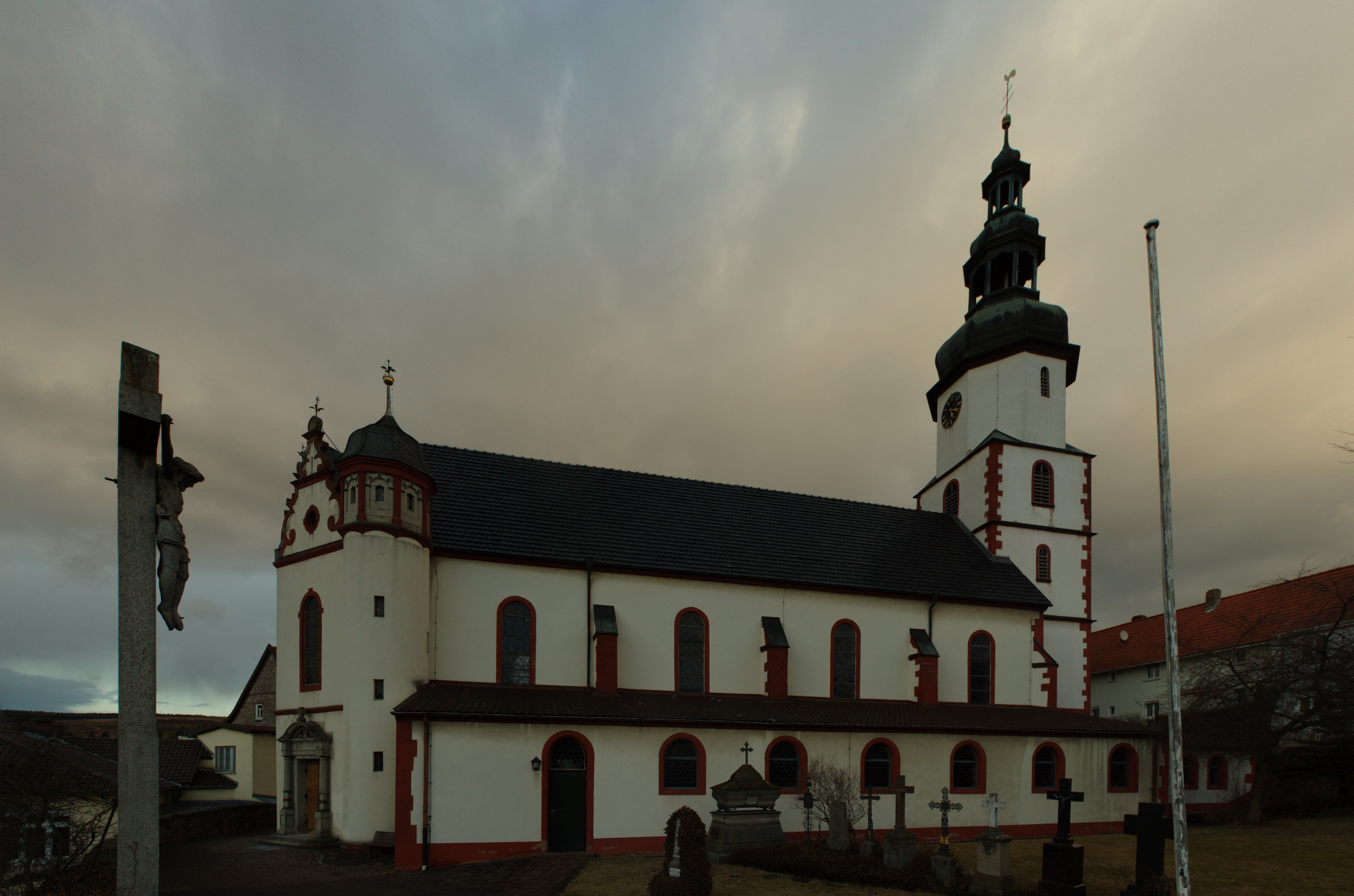 Bad Salzschlirf Hessen Catholic Church St. Vitus